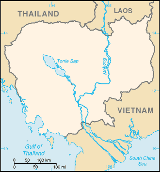 Camboia map blanked fromCIA World fact book